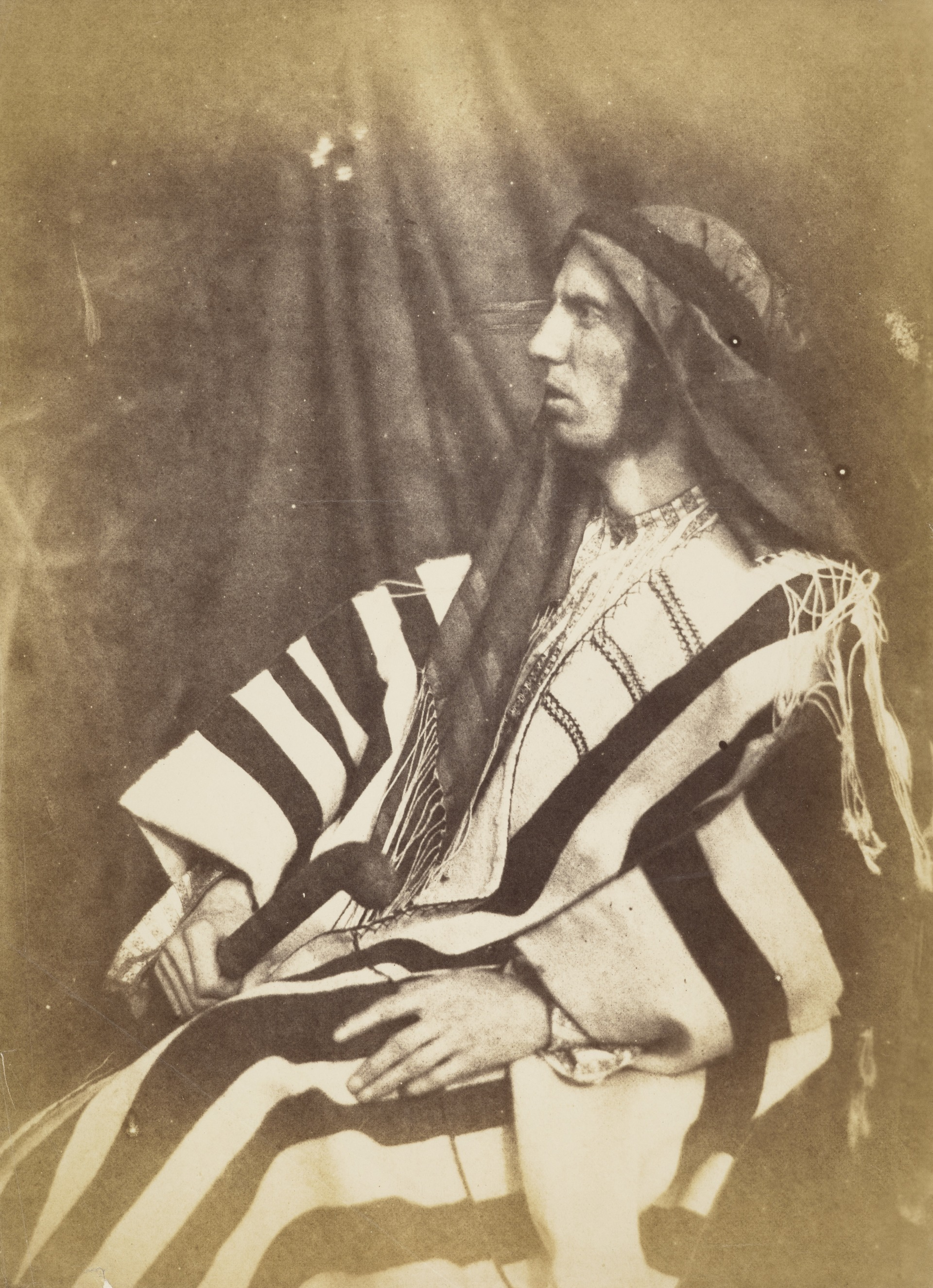 Rev. Dr John Wilson 1804 - 1875. Vice Chancellor of the University of Bombay